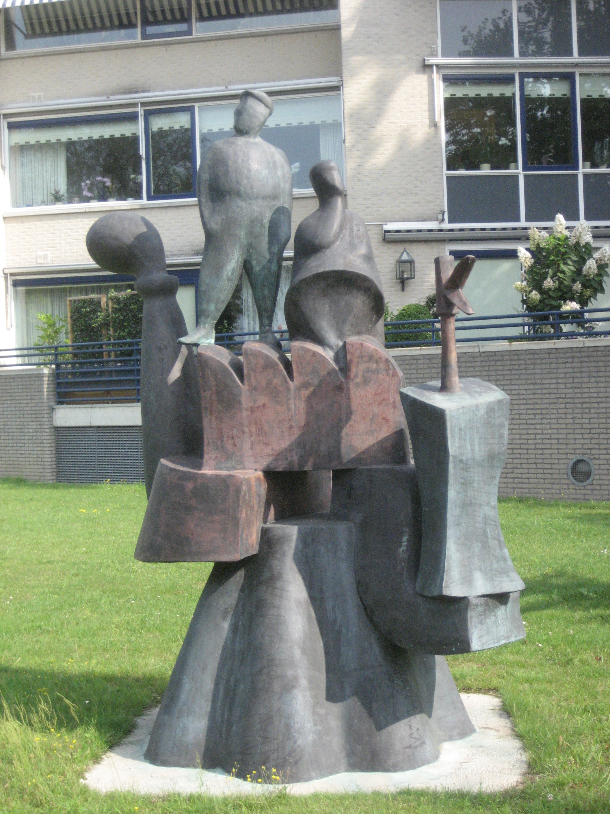 Monument in Borne (The Netherlands) for the workers of the textile factories ("NV Stoomspinnerijen en Weverijen") founded by Salomon Jacob Spanjaard. The monument was made by artist Hans Kuyper (Delft)